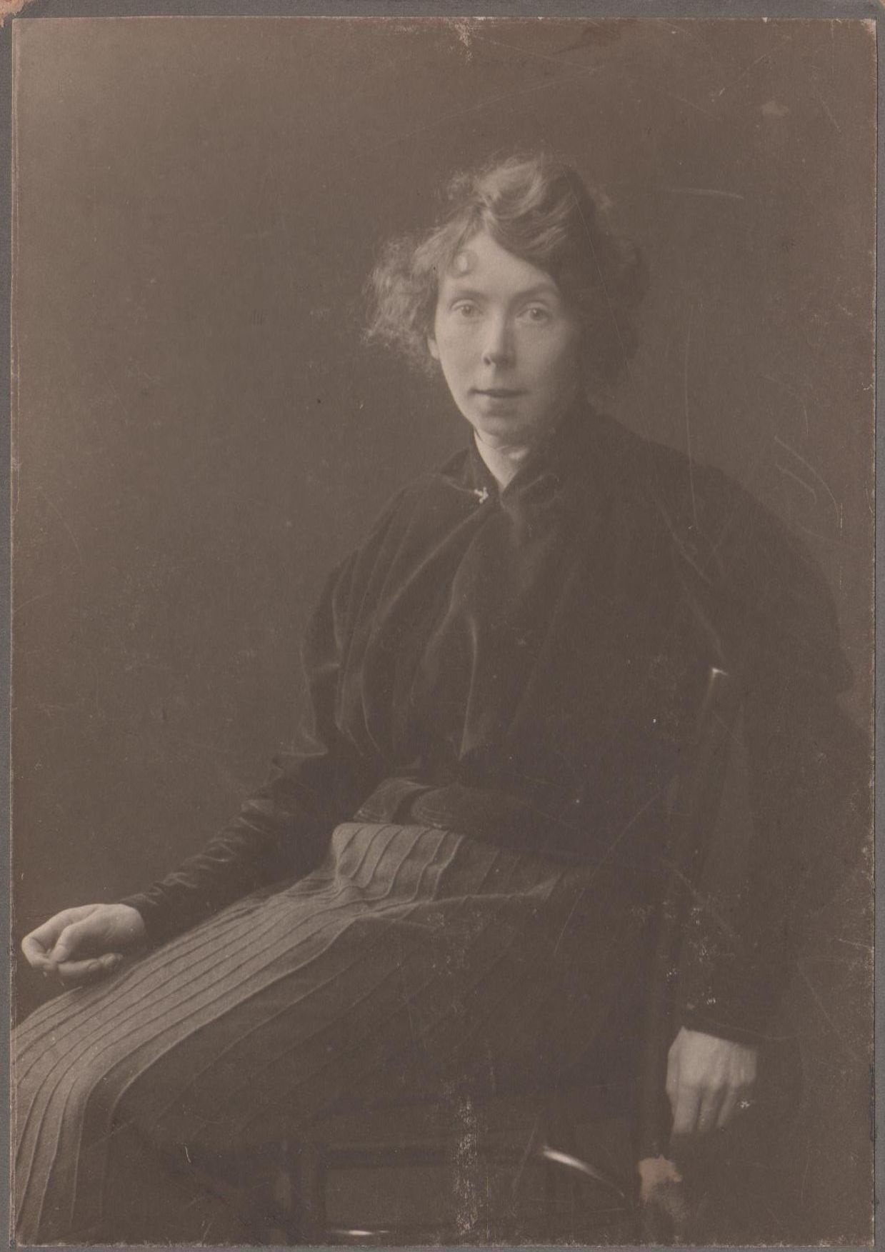 Portrait of the German writer Elisabeth Siewert (1867–1930) in 1905.